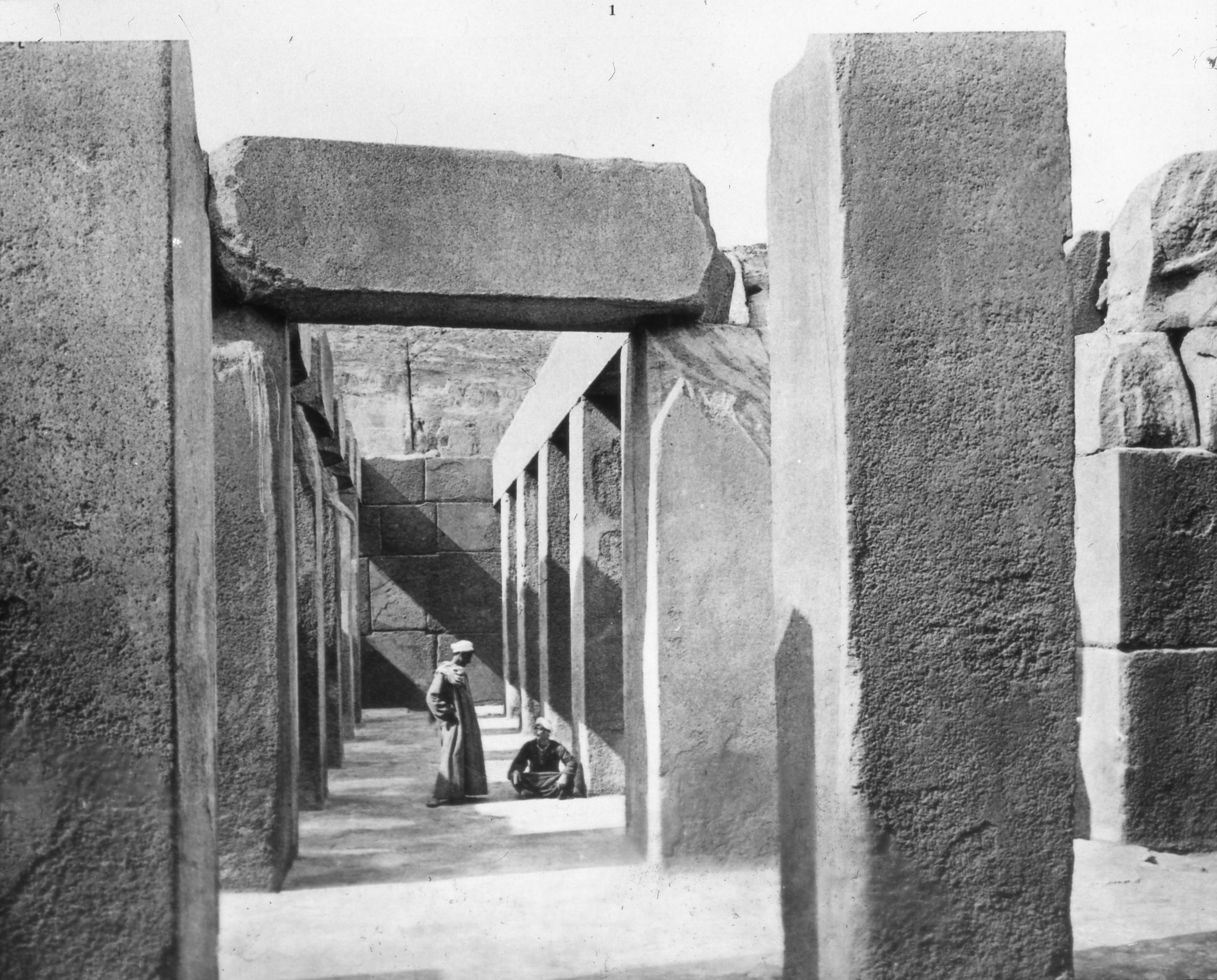 Lantern Slide Collection: Views, Objects: Egypt. Gizeh [selected images]. View 10: Egyptian - Old Kingdom. Temple of Khephren. Gizeh, 4th Dyn., n.d. Brooklyn Museum Archives (S10.08 Gizeh, image 9940).